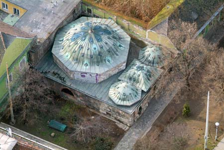 Királyfürdő Bath, Budapest, Hungary, aerial photography